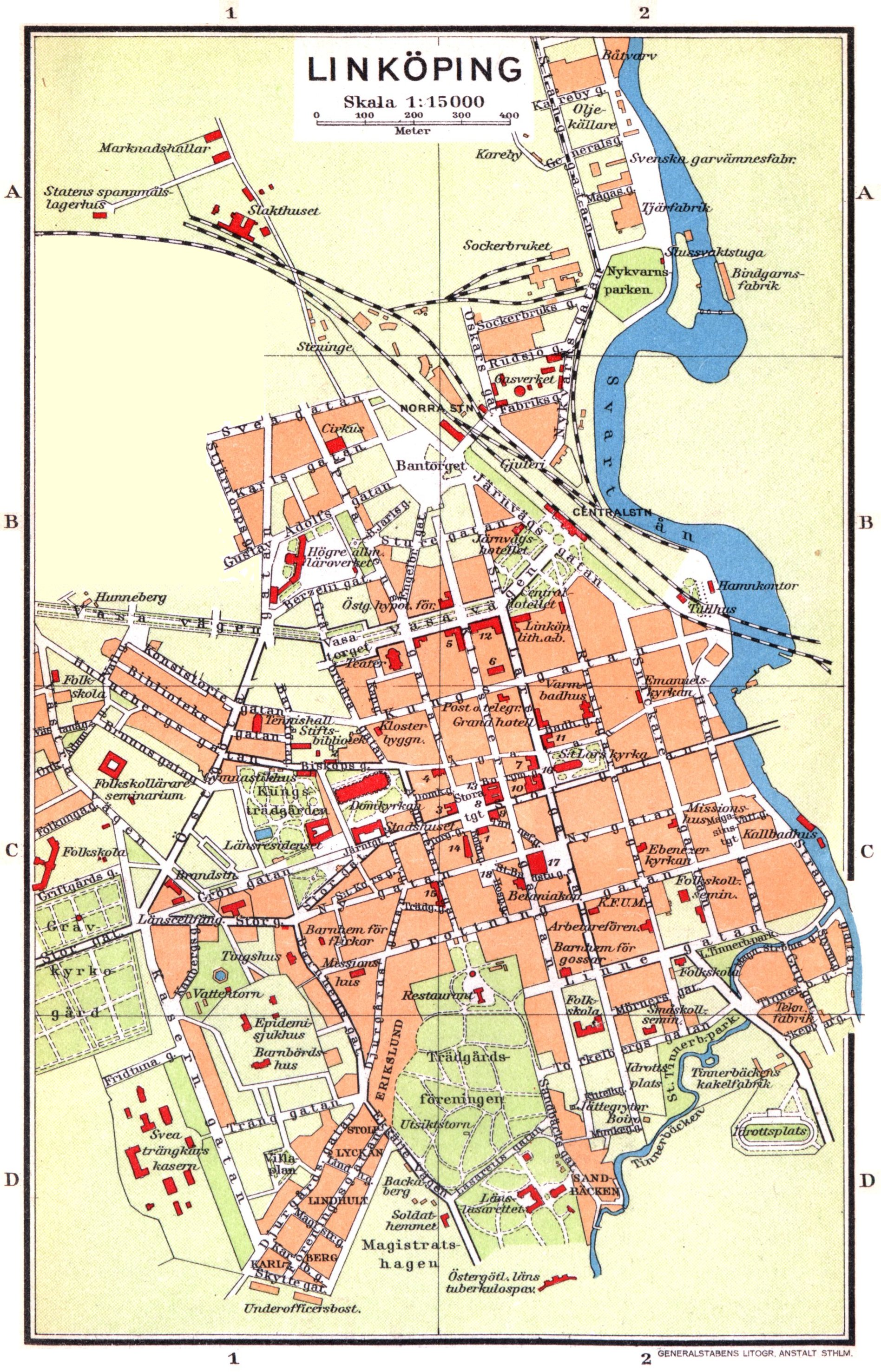 Map of Linköping, Sweden.